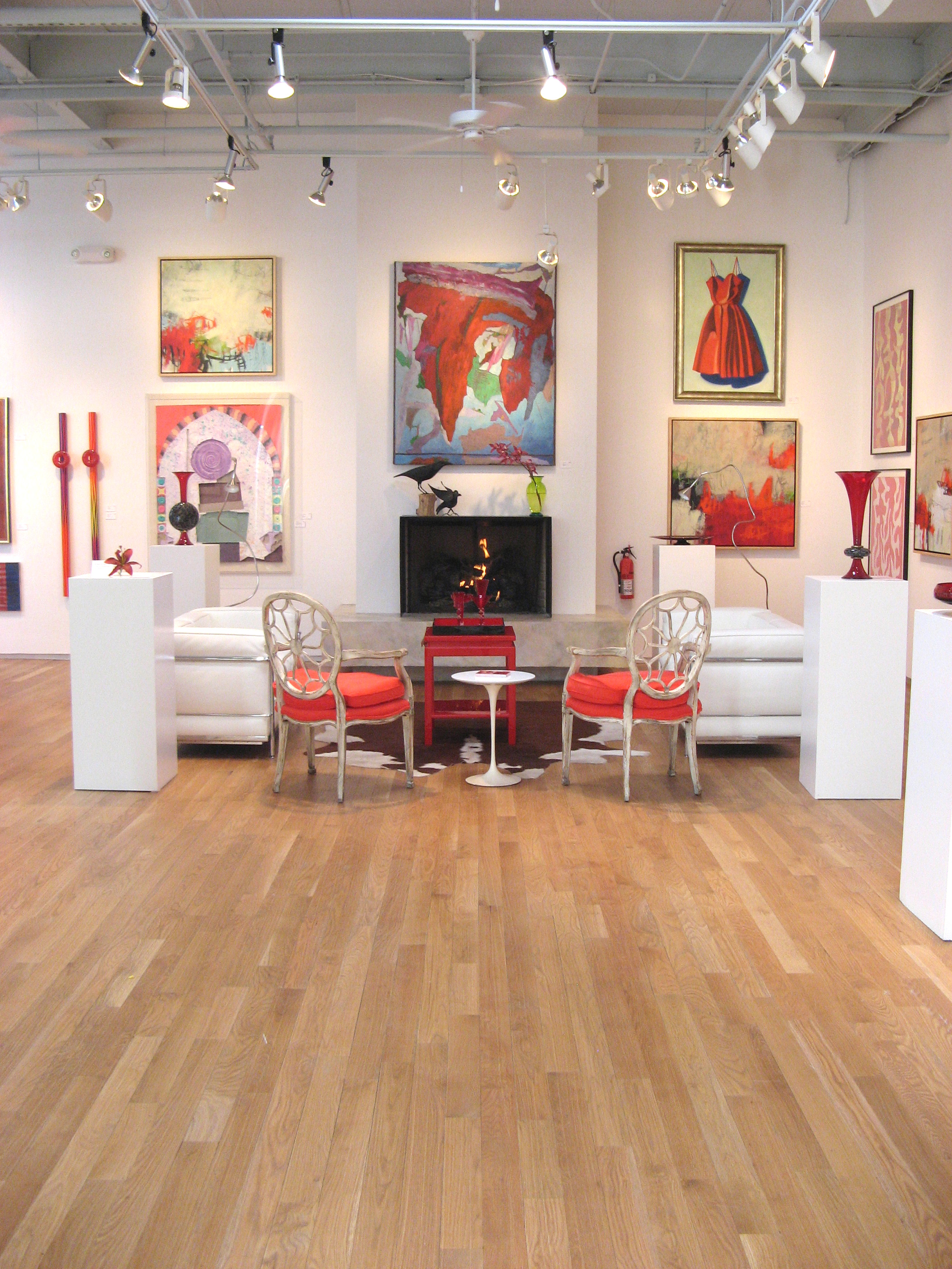 Interior photograph of Somerhill Gallery's main Salon during the Exhibition "Seeing Red" lasting from February 22 to March 27, 2009.